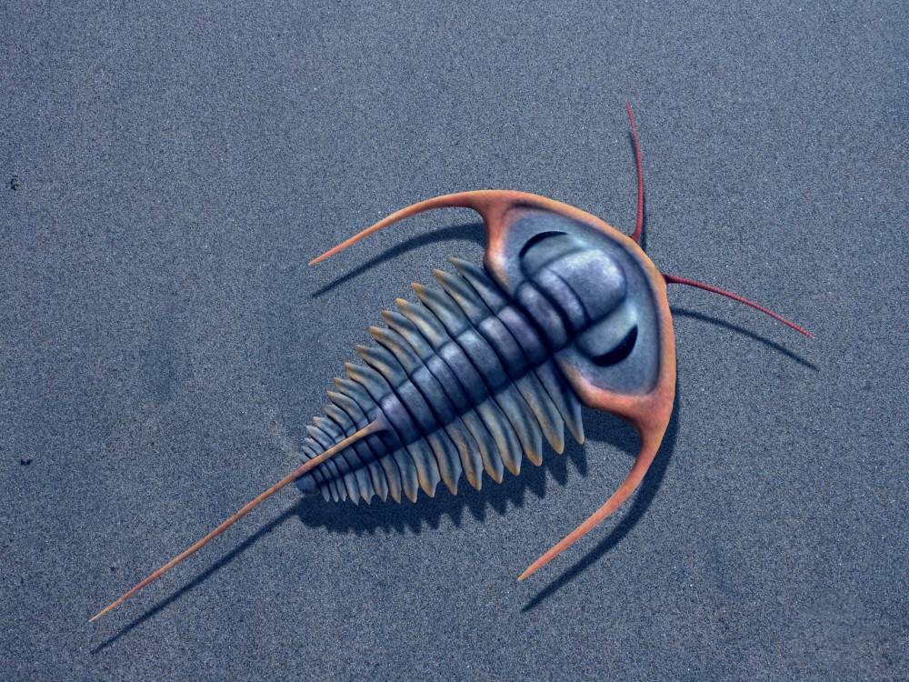 Life restoration of Eoredlichia intermedia